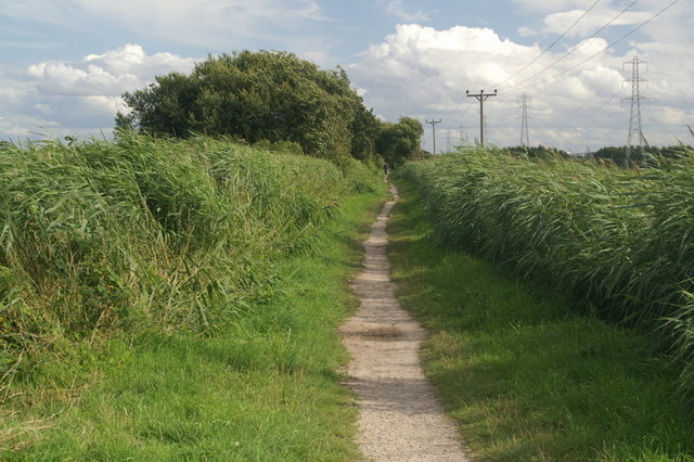 Cheshire Lines path, near Lydiate A footpath following the route of the old Cheshire Lines railway from Maghull to Southport, now part of the TransPennine Trail.